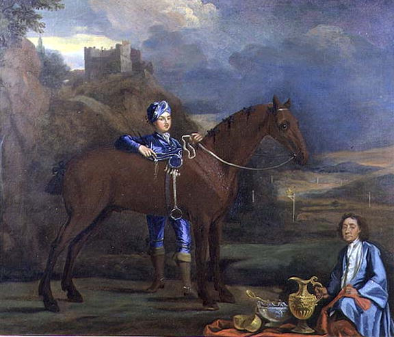 Portrait of a Racehorse and Jockey